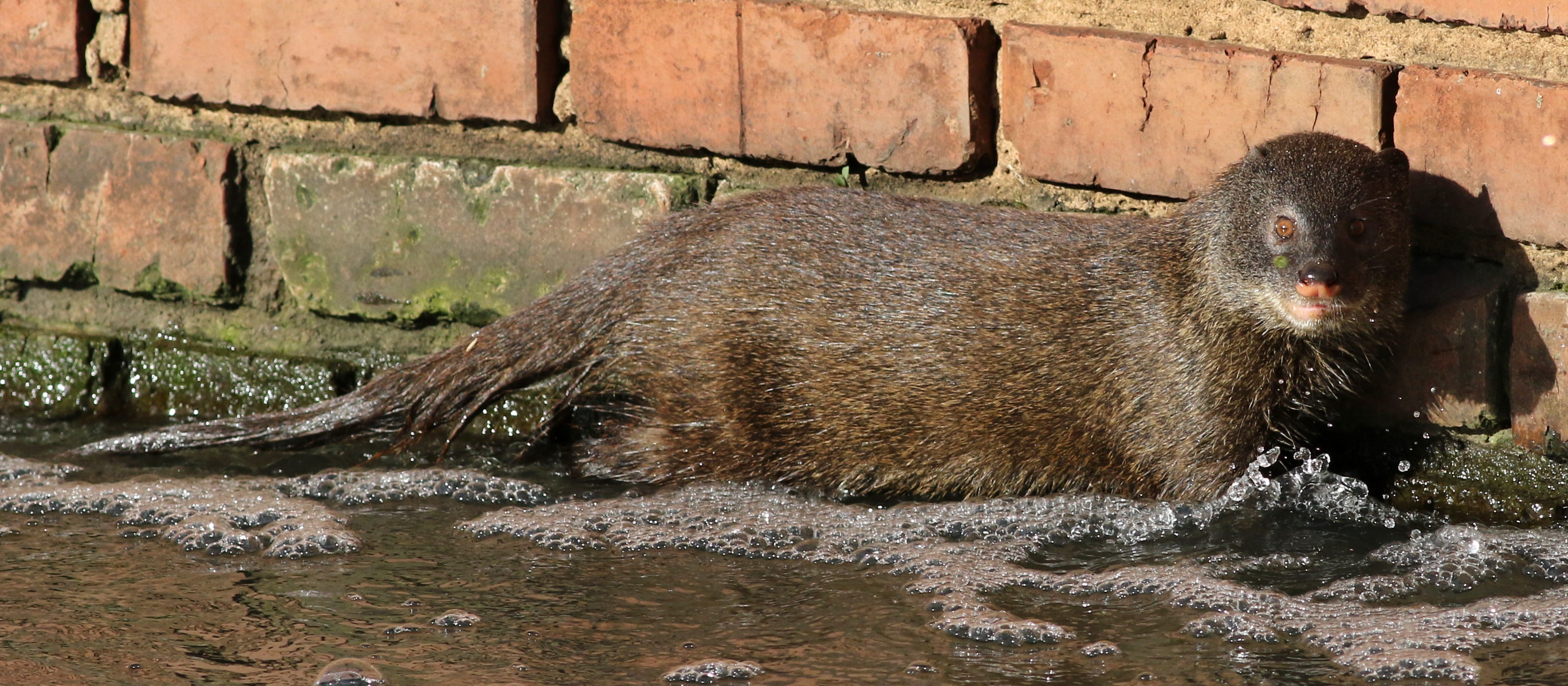 Marsh mongoose or water mongoose, Atilax paludinosus, at Rietvlei Nature Reserve, Gauteng, South Africa